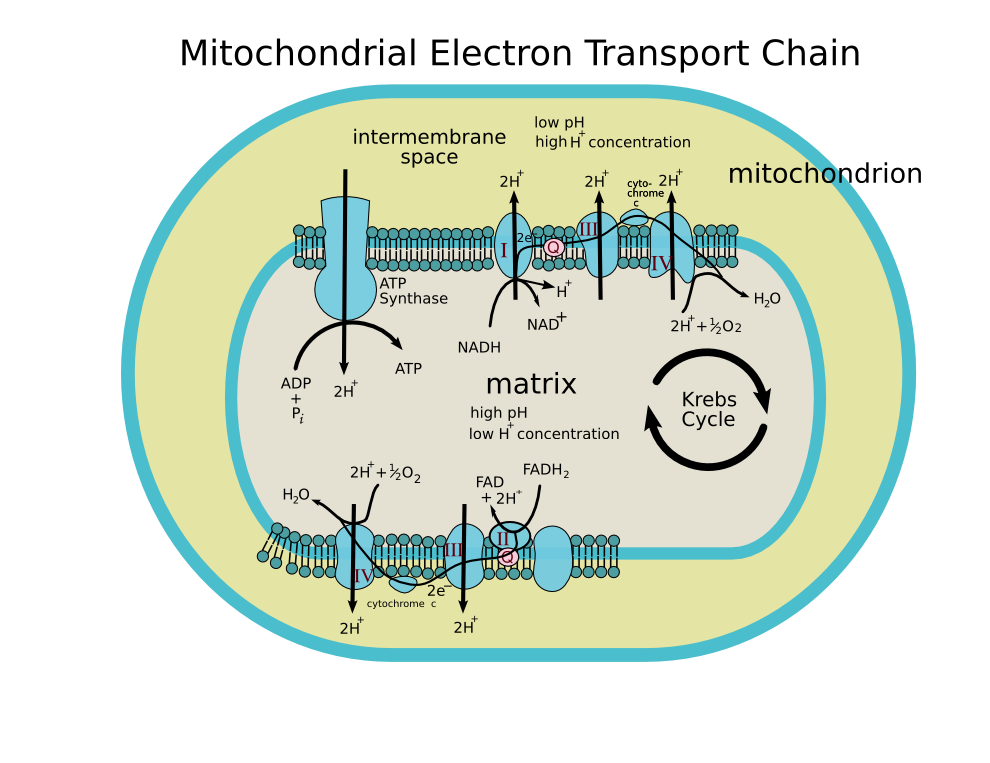 This is the png made of the file Etc2.svg The file was made using inkscape and the source can be modified using that program. Inkscape's is available for download from